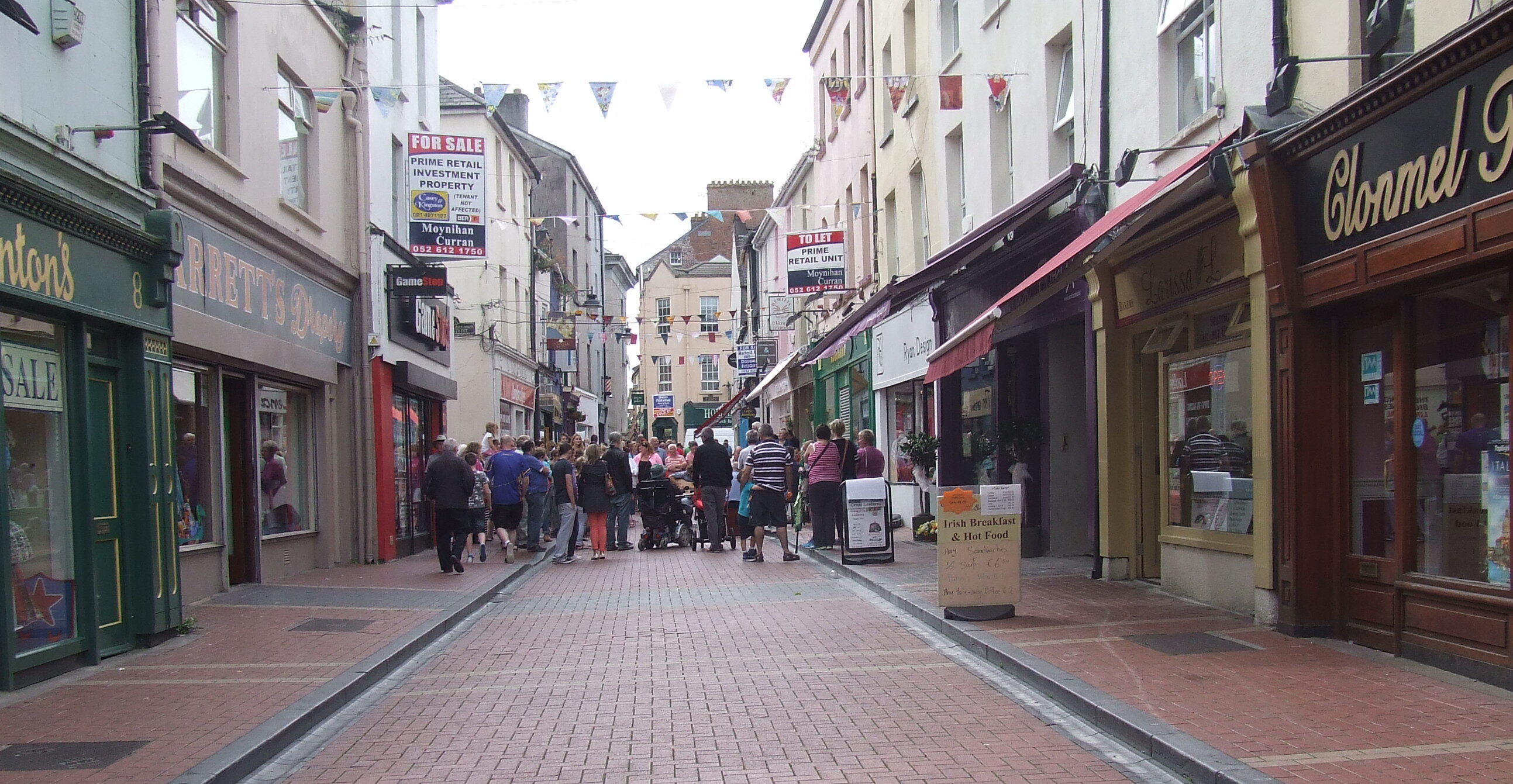 Parnell Street, Clonmel, County Tipperary during the 2014 Busking Festival.